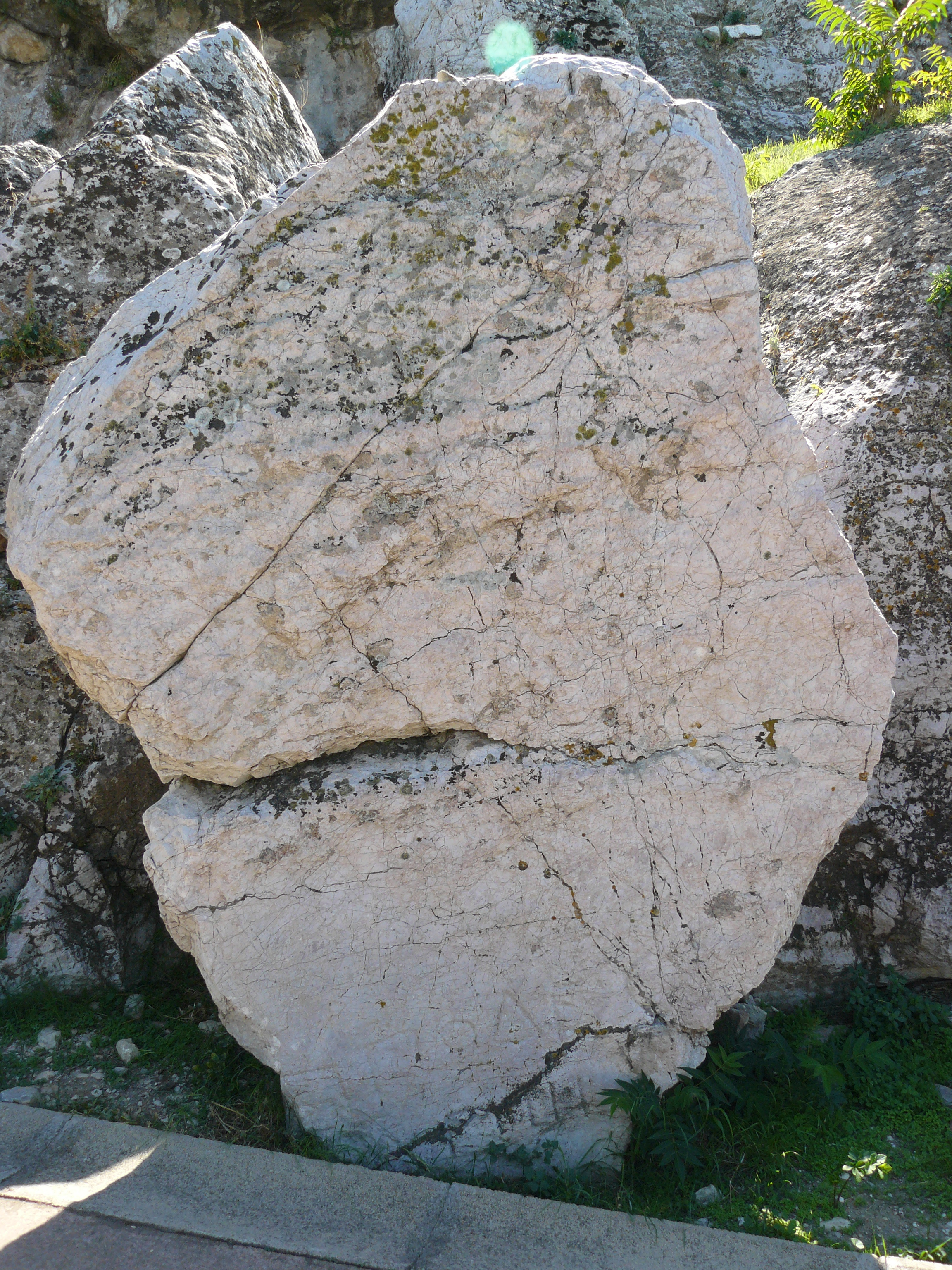 Rock on the east slope of the Acropolis of Athens, that carries the so-called Peripatos inscription.